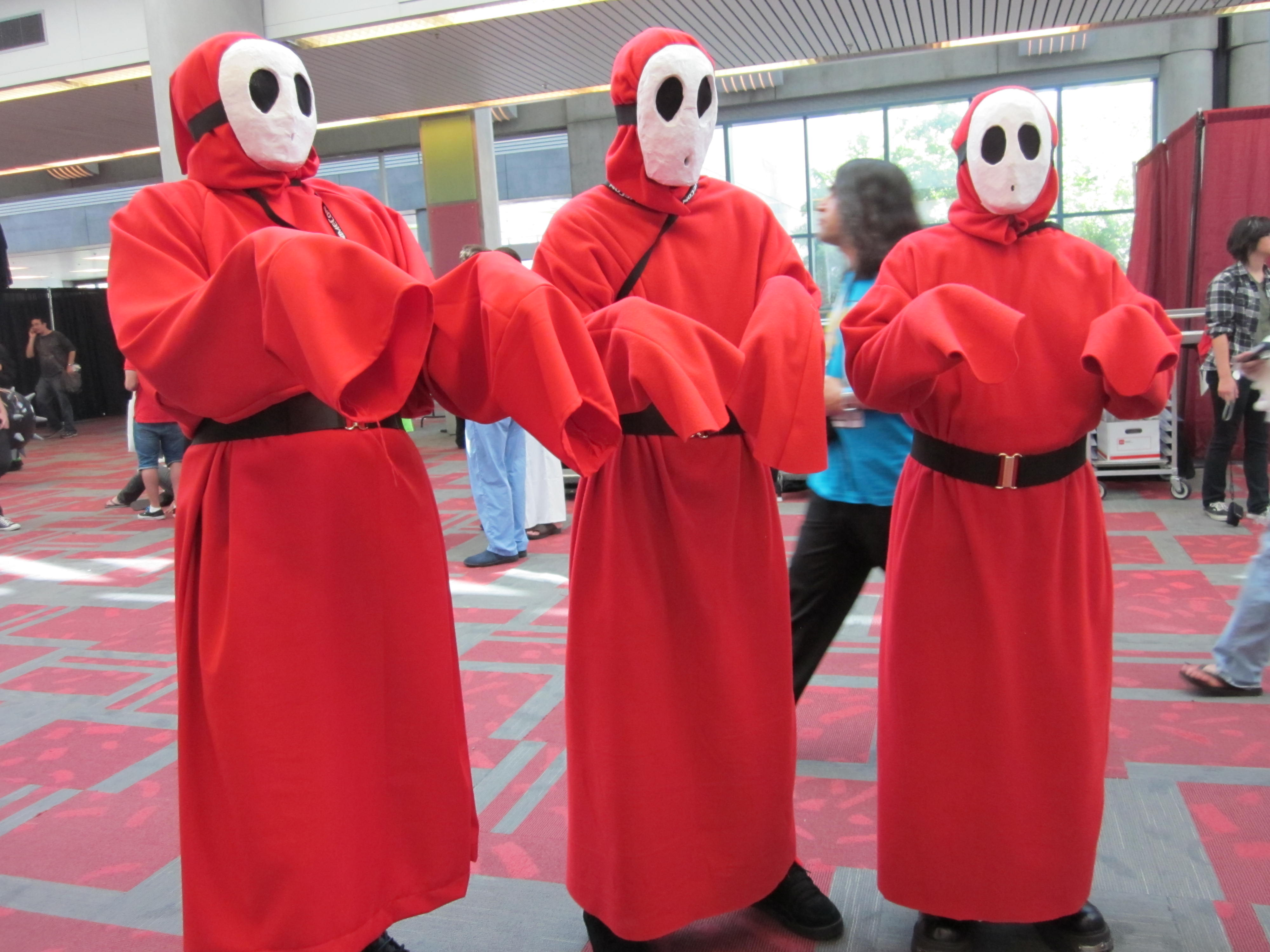 Cosplayers portraying the Shy Guys from the Mario video game series at FanimeCon 2010 in San Jose, California.